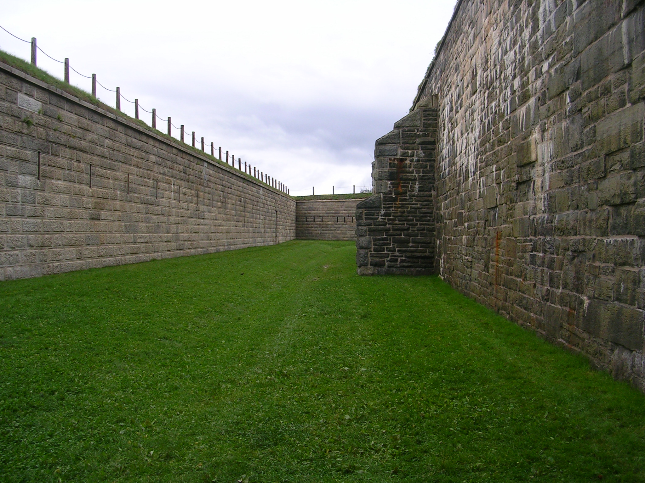 Inside the walls of Citadel Hill in Halifax, Nova Scotia on September 4, 2004. Photograph taken by Jared Grove (Phobophile) at approximately 14:18:06 (AST).